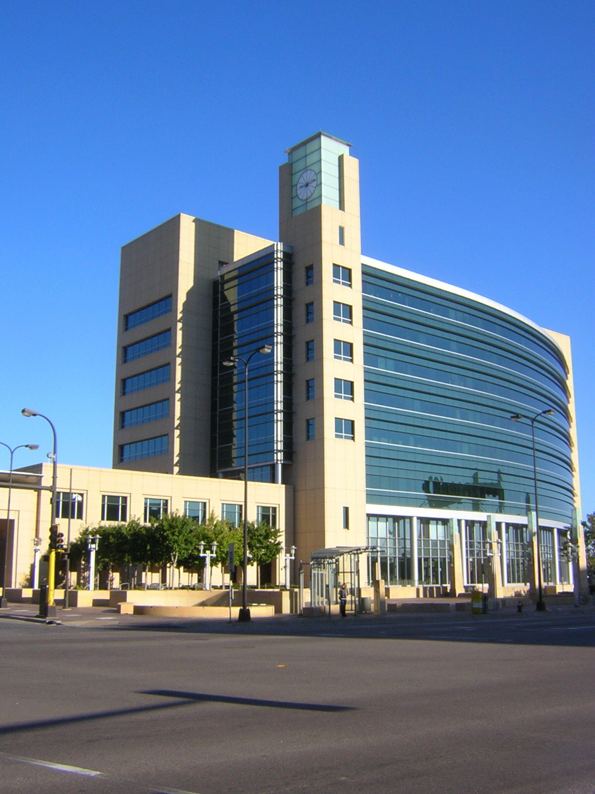 Federal Reserve Bank of Minneapolis (U.S. 9th District) on Hennepin Avenue at First Street in Minneapolis, Minnesota